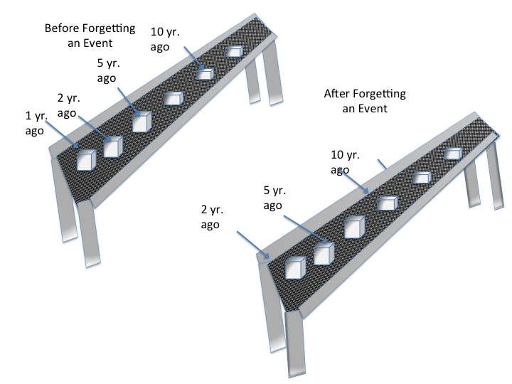 Image that explains the conveyor belt model of the telescoping effect.